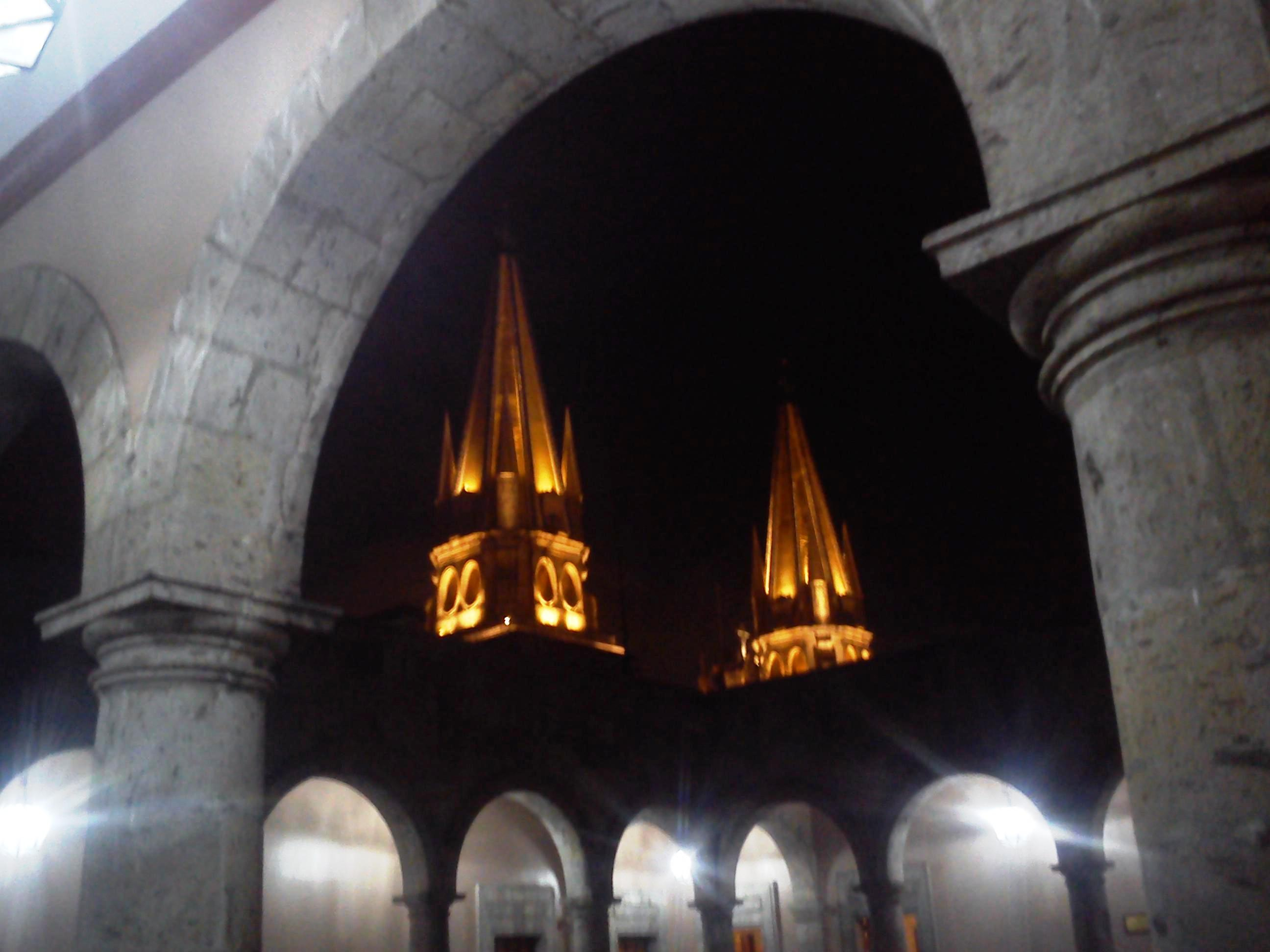 Towers of the Cathedral of Guadalara, Mexico, as seen from the Northwest angle of the second level of the corridors of the City Hall.